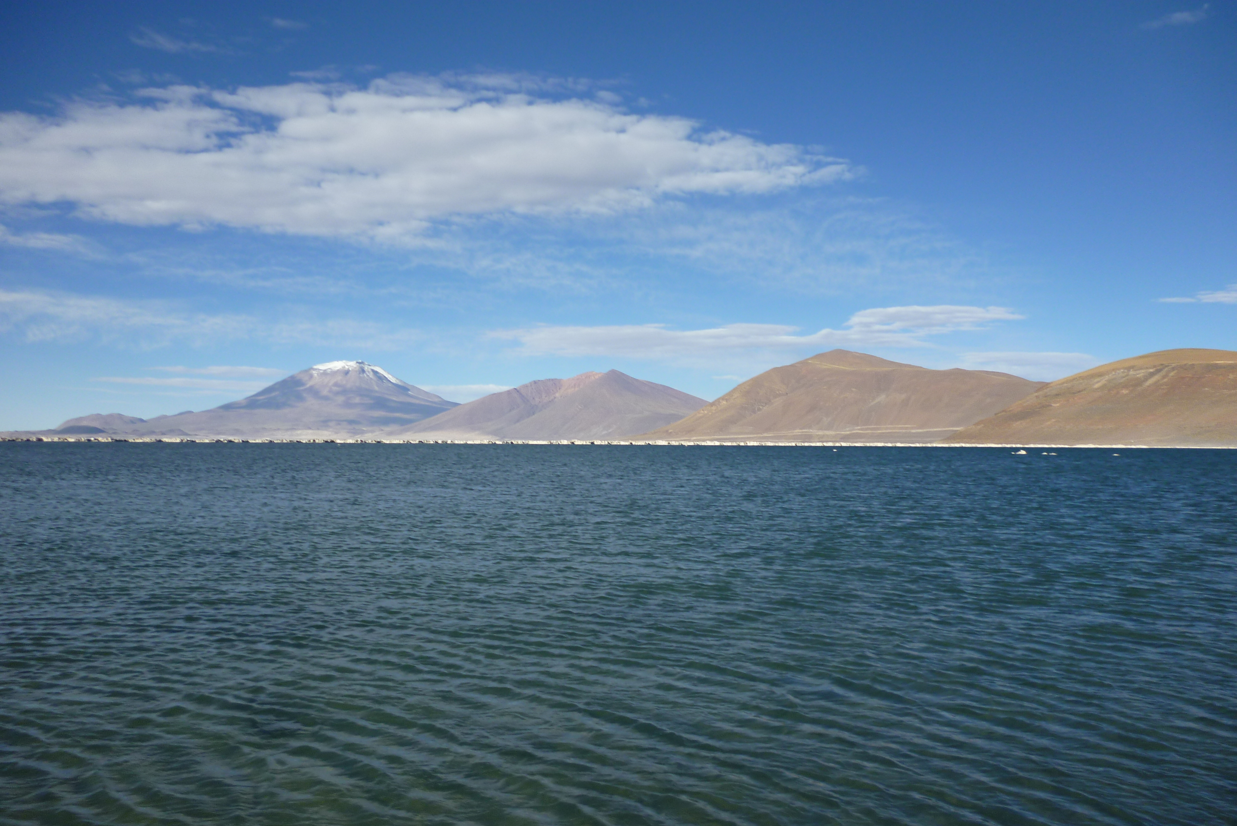 Comuna de Ollagüe, segunda región de Antofagasta